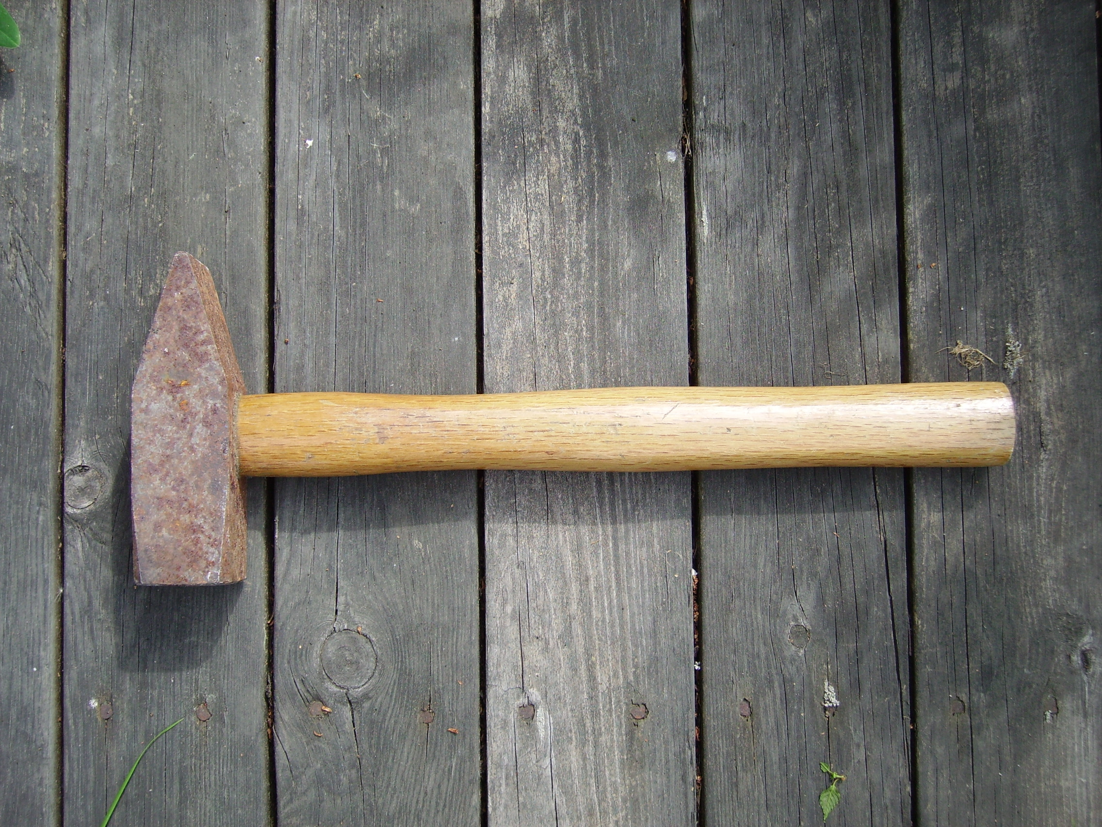 Smith's hammer